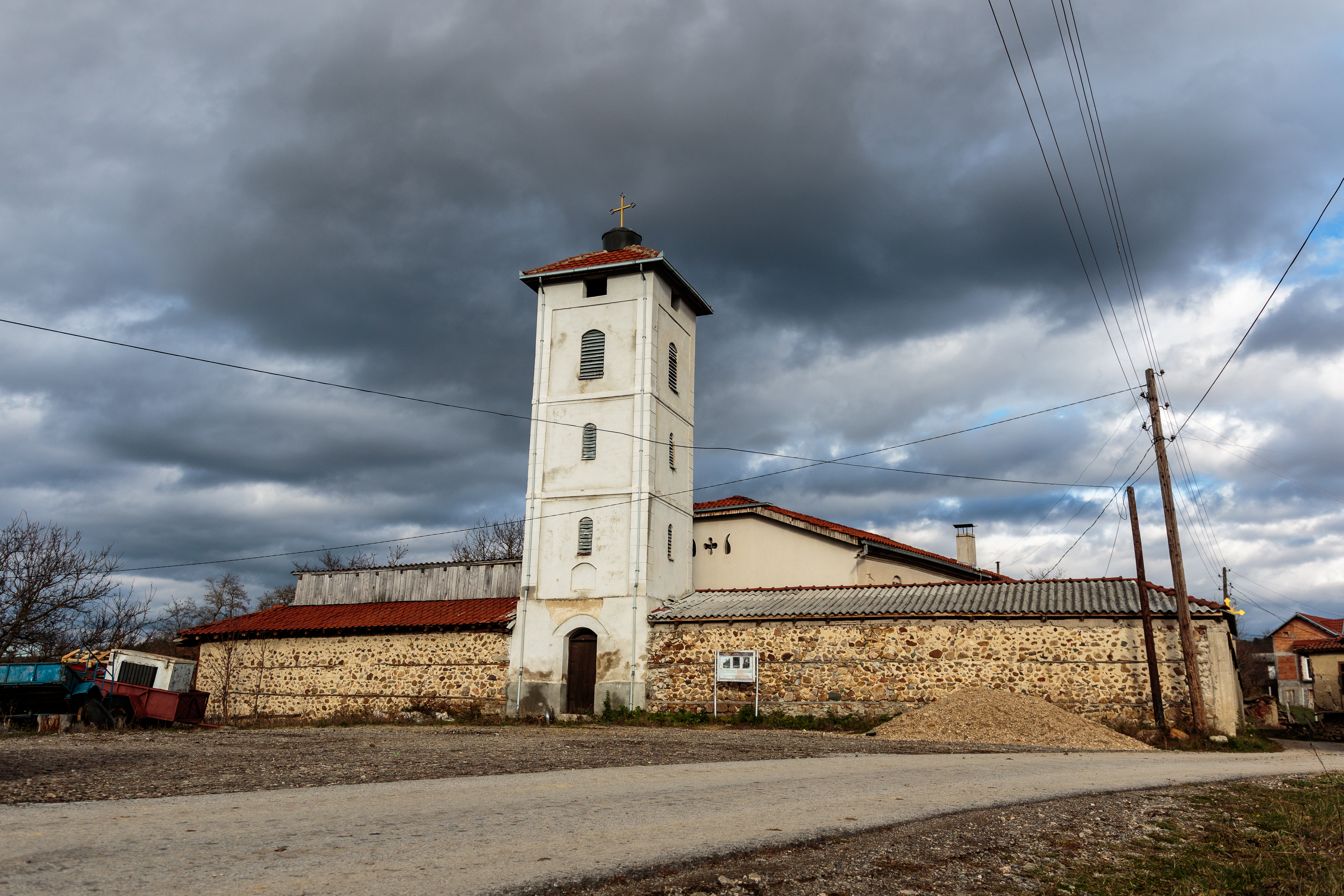 Dormition of the Theotokos Church in the village of Smojmirovo, Maleševija, Macedonia